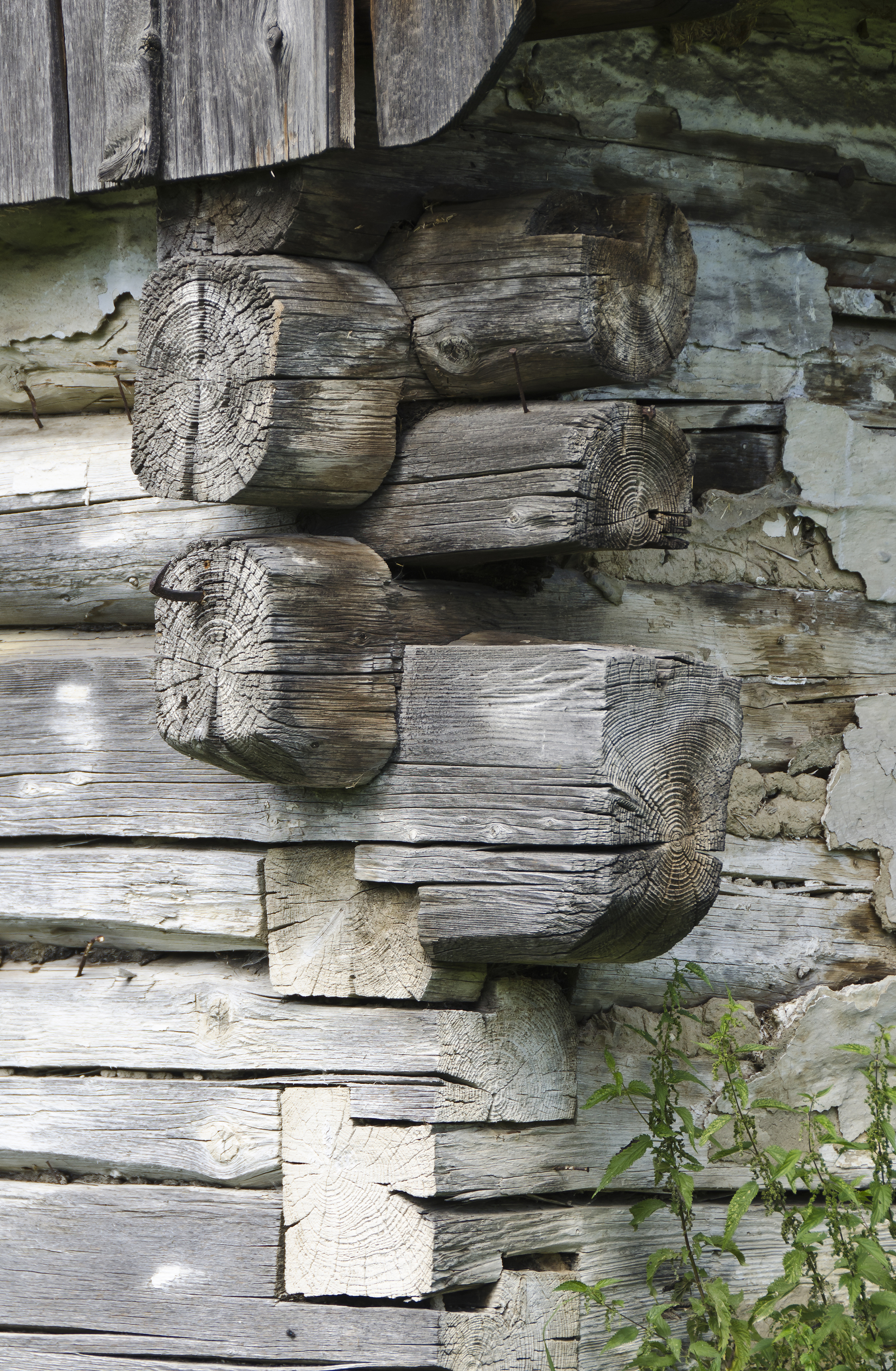 House number 67 in Stary Waliszów, corner